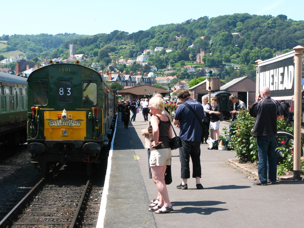 Preserved Class 201 diesel-electric multiple unit 1001 stands at Minehead station, Somerset, England, while working a railtour from its base in Hastings, East Sussex.